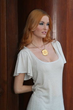 Miss Denmark 07 - Line Kruuse in Miss World 2007, Sanya, China